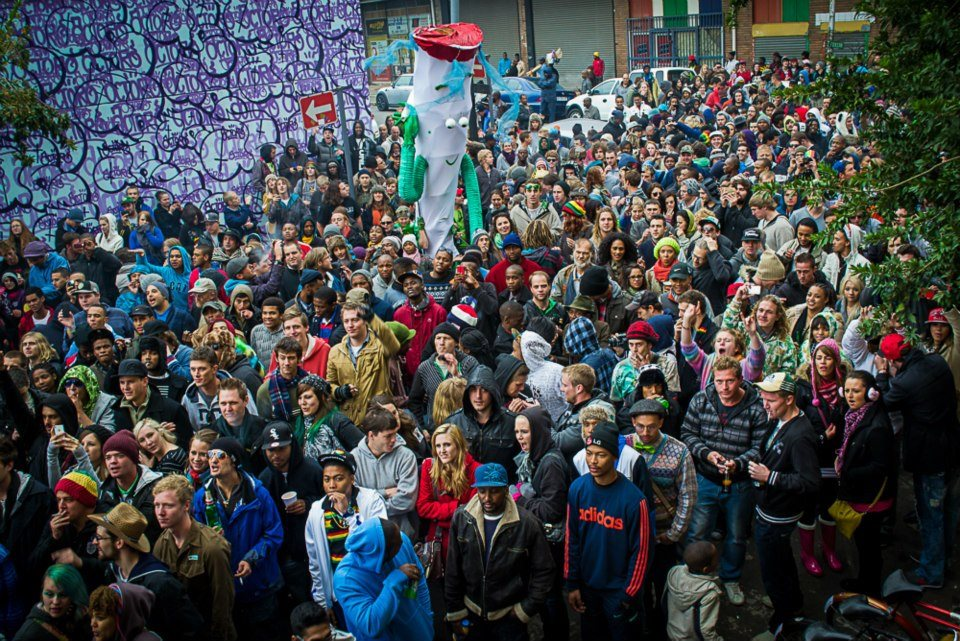 Descriptions: Daggafarians celebrating 420 in the Maboneng precinct, Johannesburg